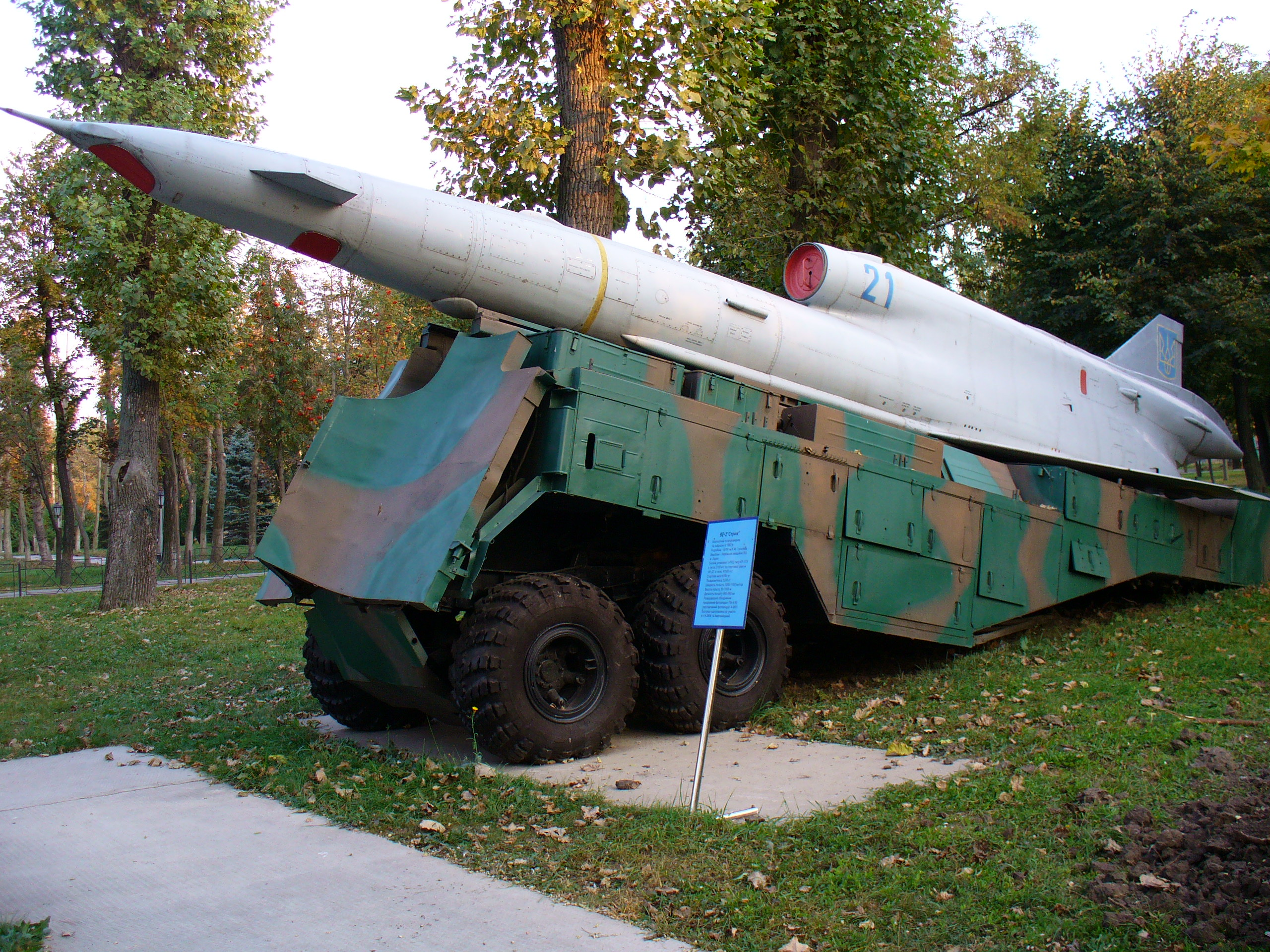 Tupolev Tu-141 Strizh (Swift) on the launcher. USSR medium-range reconnaissance UAV (drone). Ukrainian Air Force Museum in Vinnitsa.